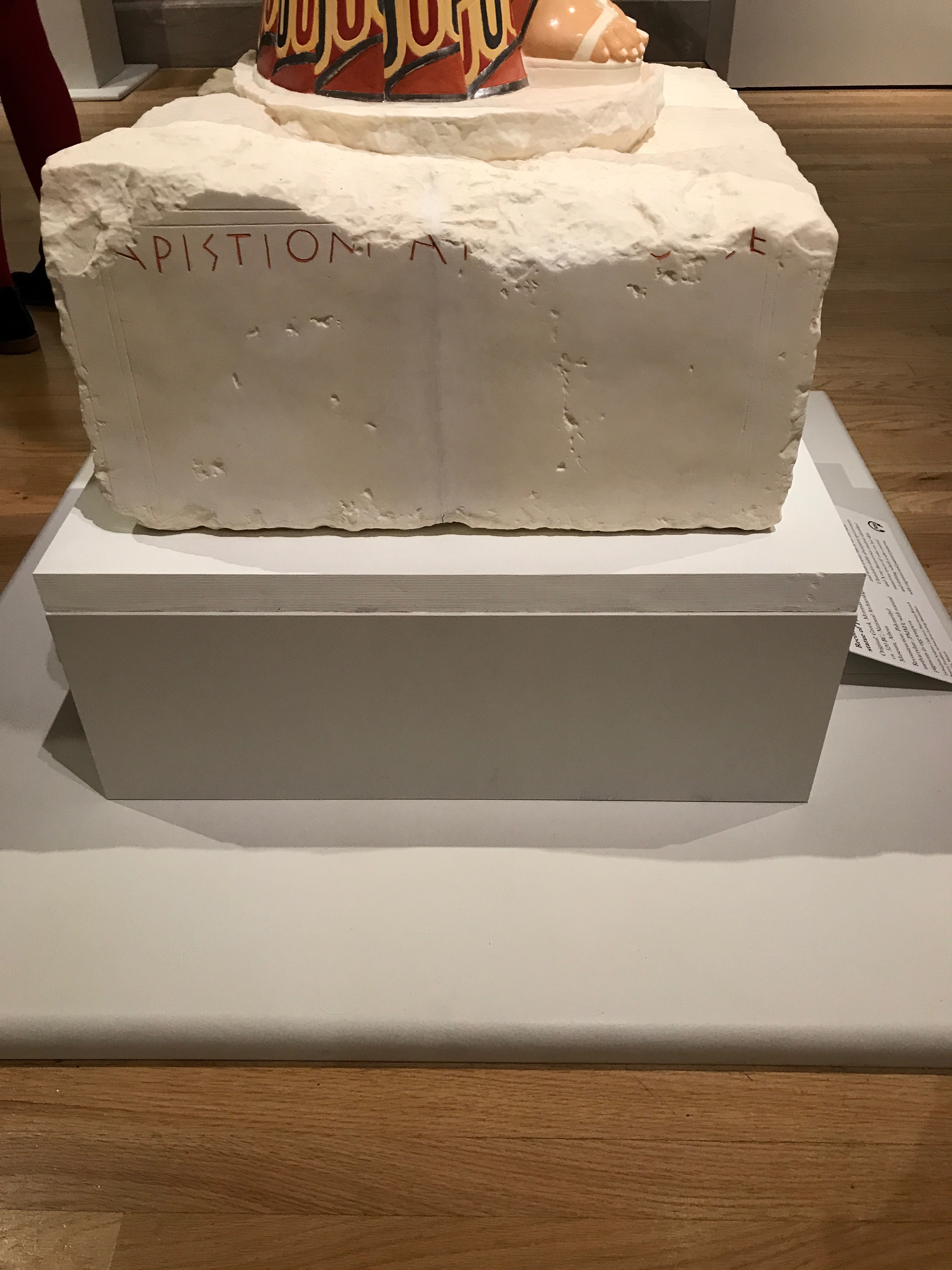 Ariston of Paros inscription on the Phrasikleia (left side) Photo: courtesy of Brigid Powers 2017, from Gods in Color San Francisco, CA.